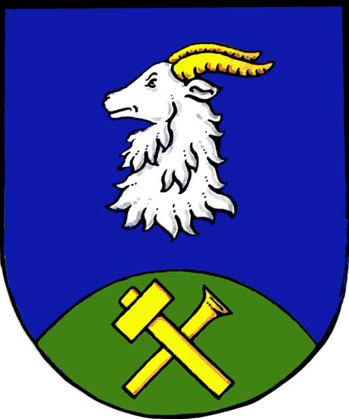 Coat of amrs of Kozárovice , District Příbram, Czech Republic